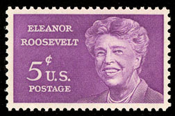 US stamp honoring Eleanor Roosevelt